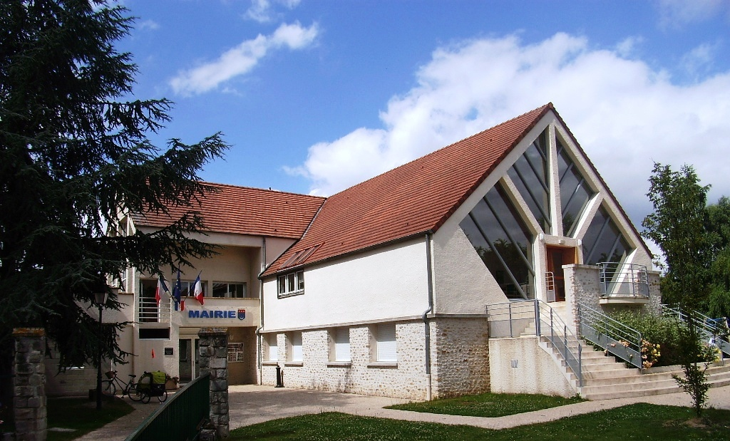 Ballainvilliers (FR-91190) TownHall